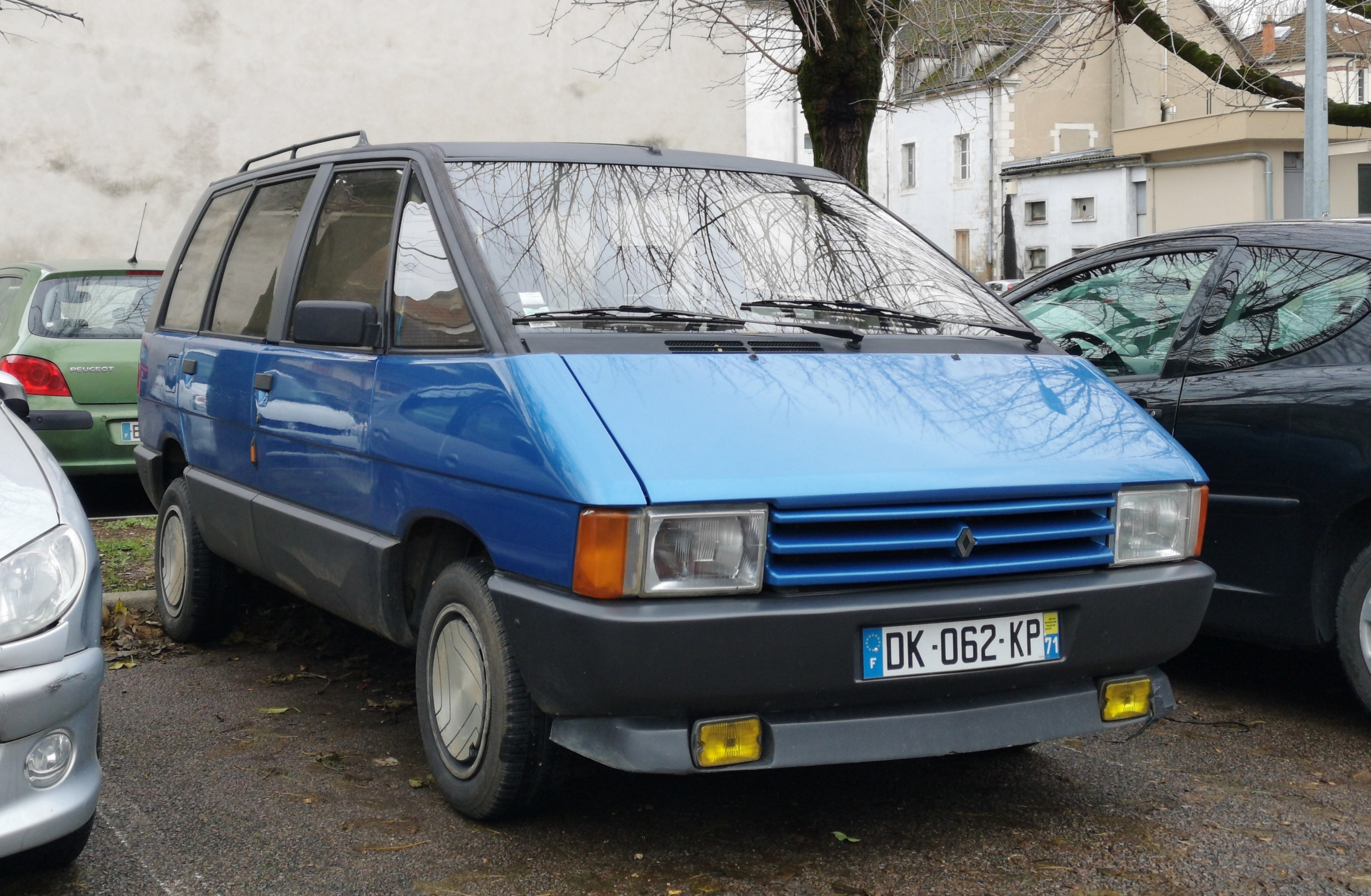 Chalon sur Saone, 2019